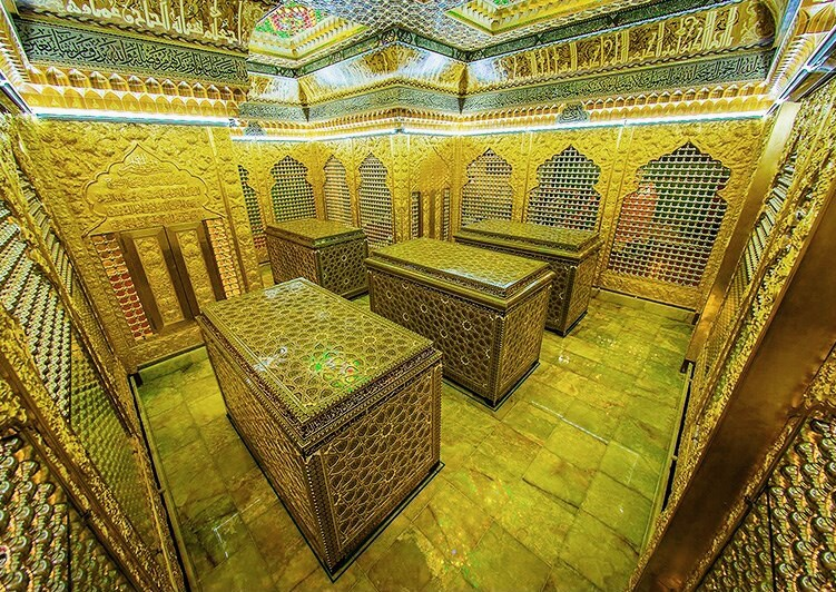 Al-Askari Shrine in the Mosque